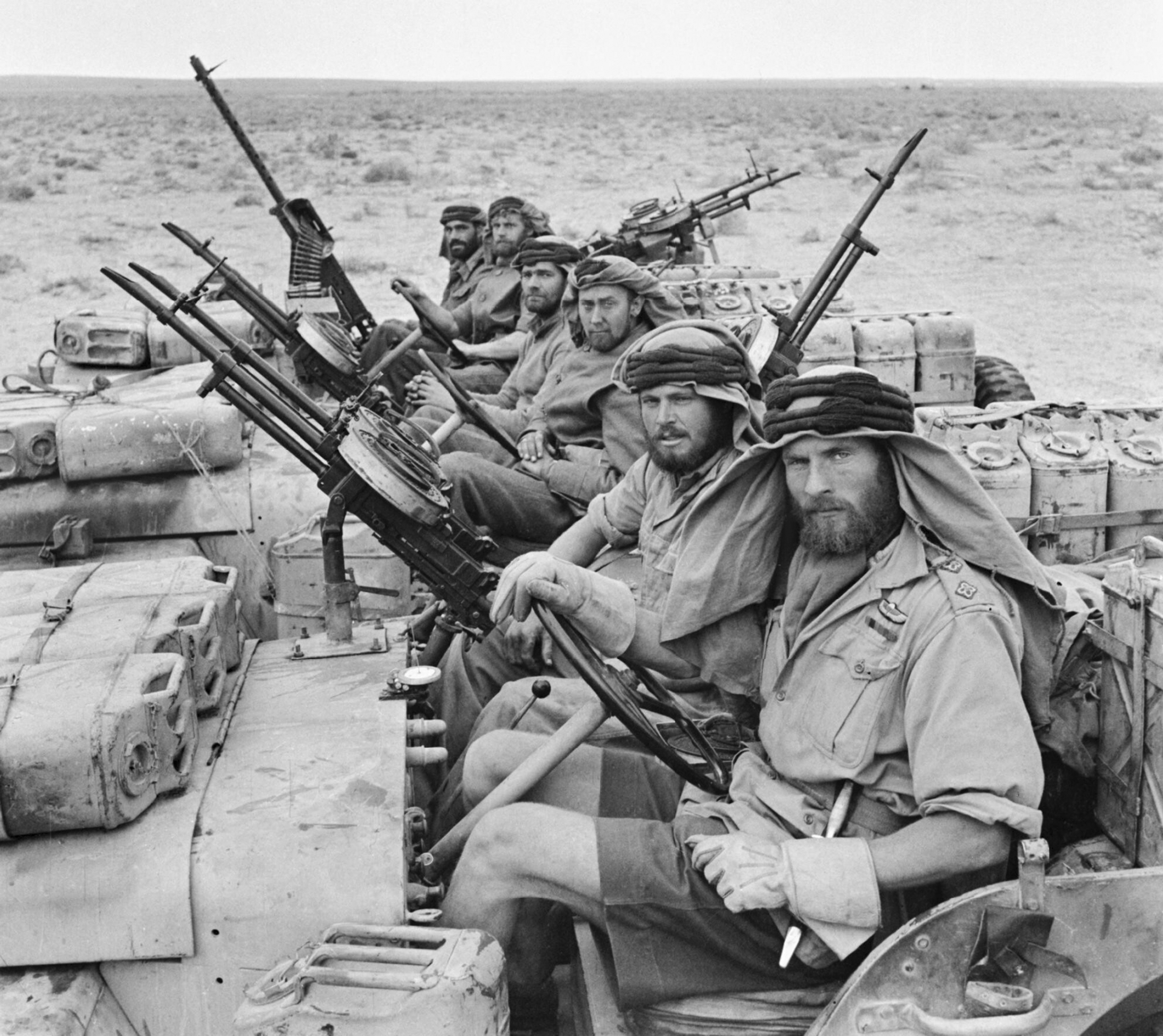 Title: THE SPECIAL AIR SERVICE (SAS) IN NORTH AFRICA DURING THE SECOND WORLD WAR : A close-up of a heavily armed patrol of 'L' Detachment SAS in their Jeeps, just back from a three month patrol. The crews of the jeeps are all wearing 'Arab-style' headdress, as copied from the Long Range Desert Group.